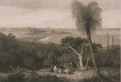 View from the South Side of King George's Sound, an engraving by John Byrne (1786-1847) of William Westall's 1809–1812 oil-on-canvas painting Part of King George III Sound, on the South Coast of New Holland, December 1801, which is in turn based upon Westall's 1801 field sketch King George's Sound, View from Peak Head. It was first published in Matthew Flinders' 1814 A voyage to Terra Australis, and shortly afterwards republished by Westall in his 1814 Views of Australian scenery. It depicts King George Sound on the south coast of Western Australia. Specifically, it is a view looking north-north-west from Peak Head, across Torndirrup and Vancouver Peninsula towards the mainland. The people in the foreground are Australian Aborigines, stylised according to the noble savage tradition. The shrub on the left is Macrozamia riedlei; the shrub in the centre is Banksia verticillata. The tree just right of centre is a Eucalyptus; on the right is the grass-tree Kingia australis, then a group of Xanthorrhoea preissii grass-trees.